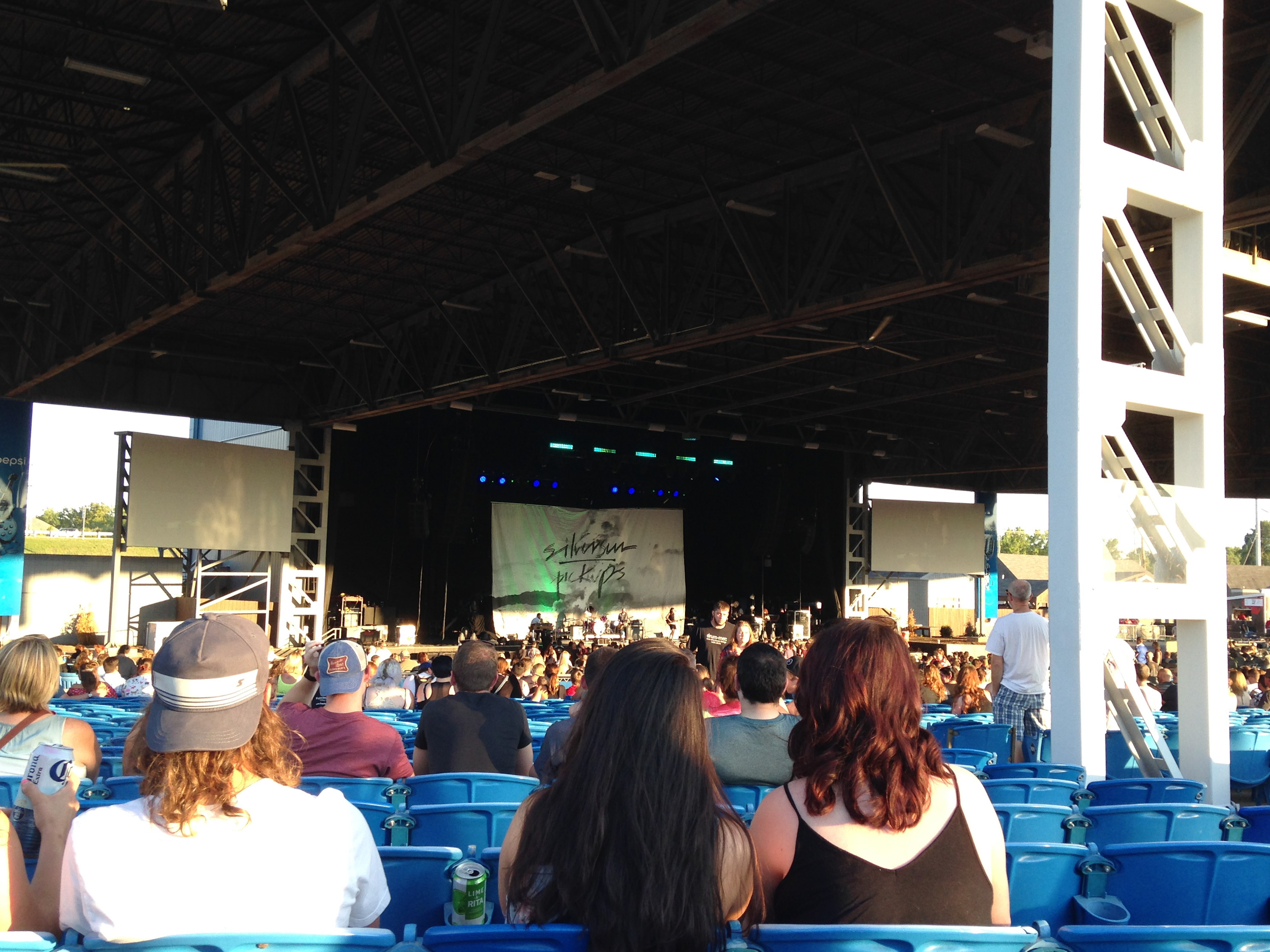 Hollywood Casino Amphitheatre in 2017